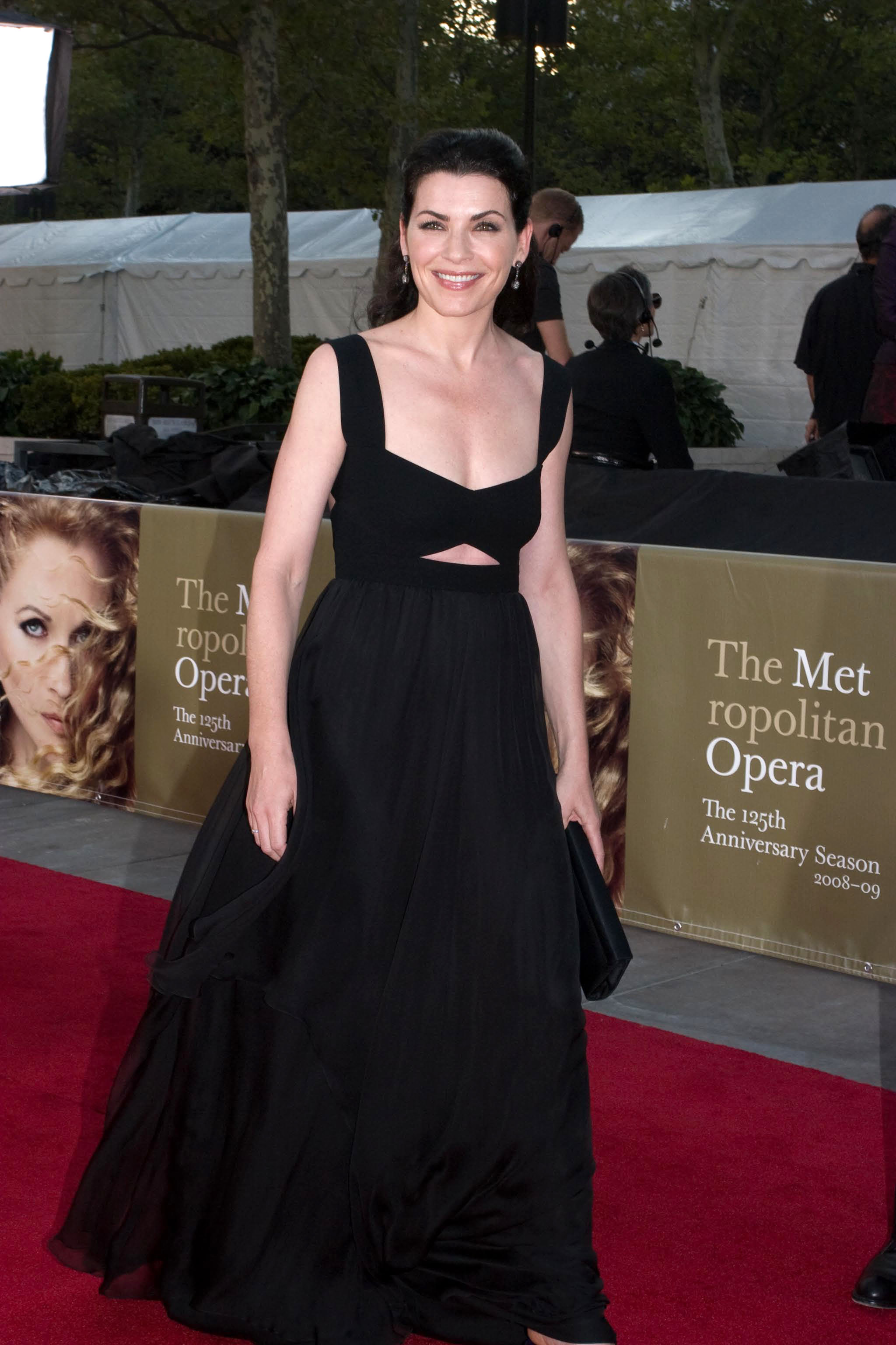 Julianna Margulies at the Metropolitan Opera opening in 2008. © Rubenstein, photographer Martyna Borkowski